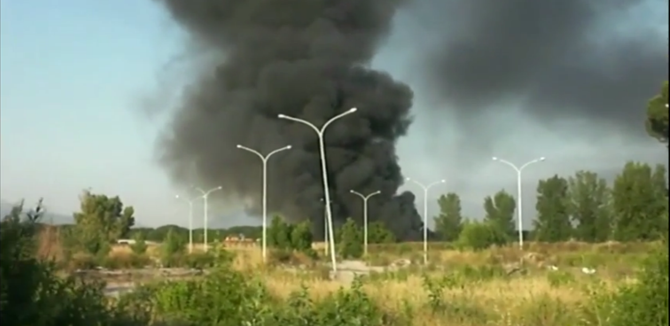 Fire on the area of Pascarola-Caivano (Italy) appeared the 18th of June 2012. In this area, nicknamed the Land of Fires, many wastes are burned without control by the authorities in the middle of the lands.